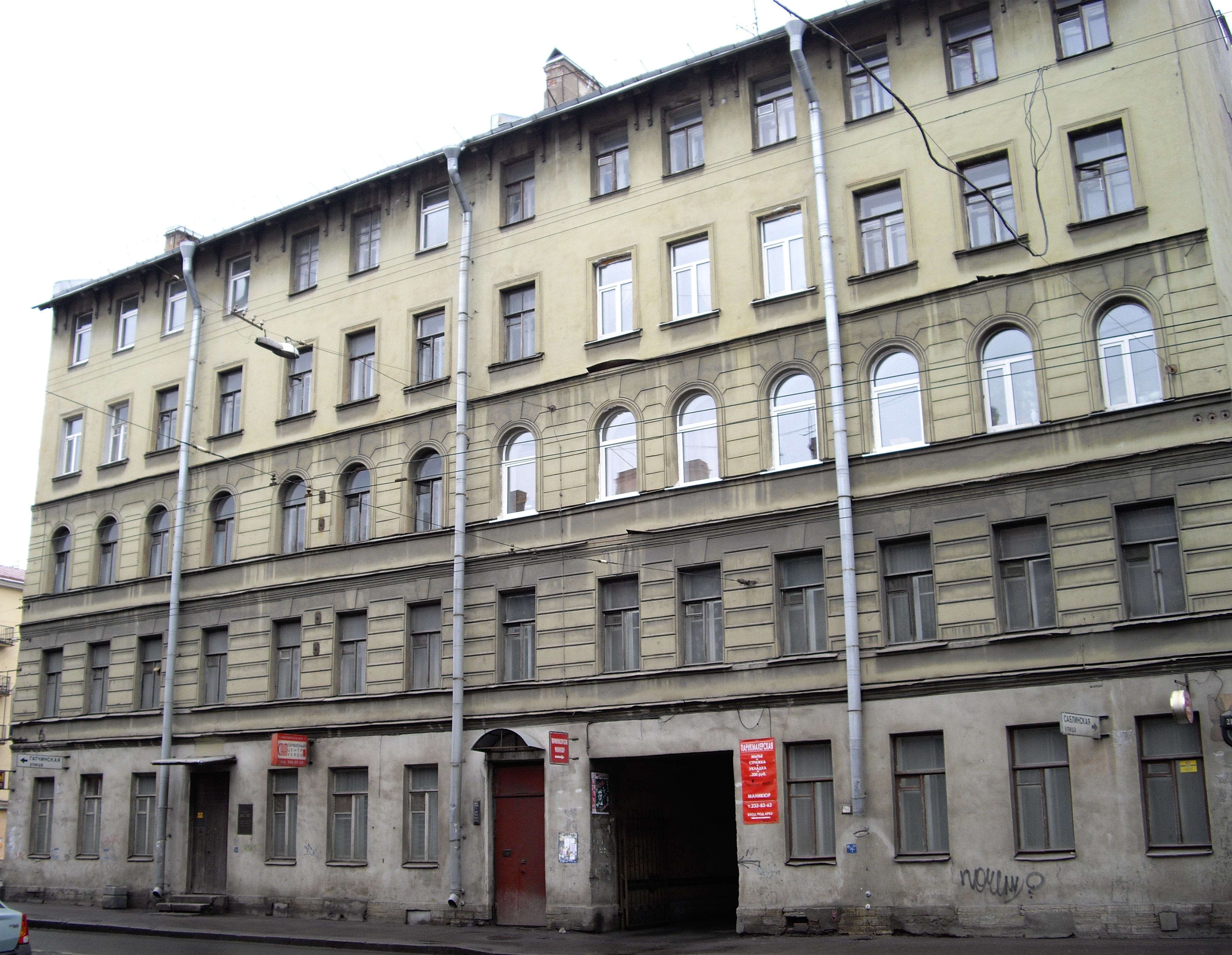 21, Bolshaya Pushkarskaya street (Saint Petersburg, Russia). Project by M. Rosensohn, 1901.